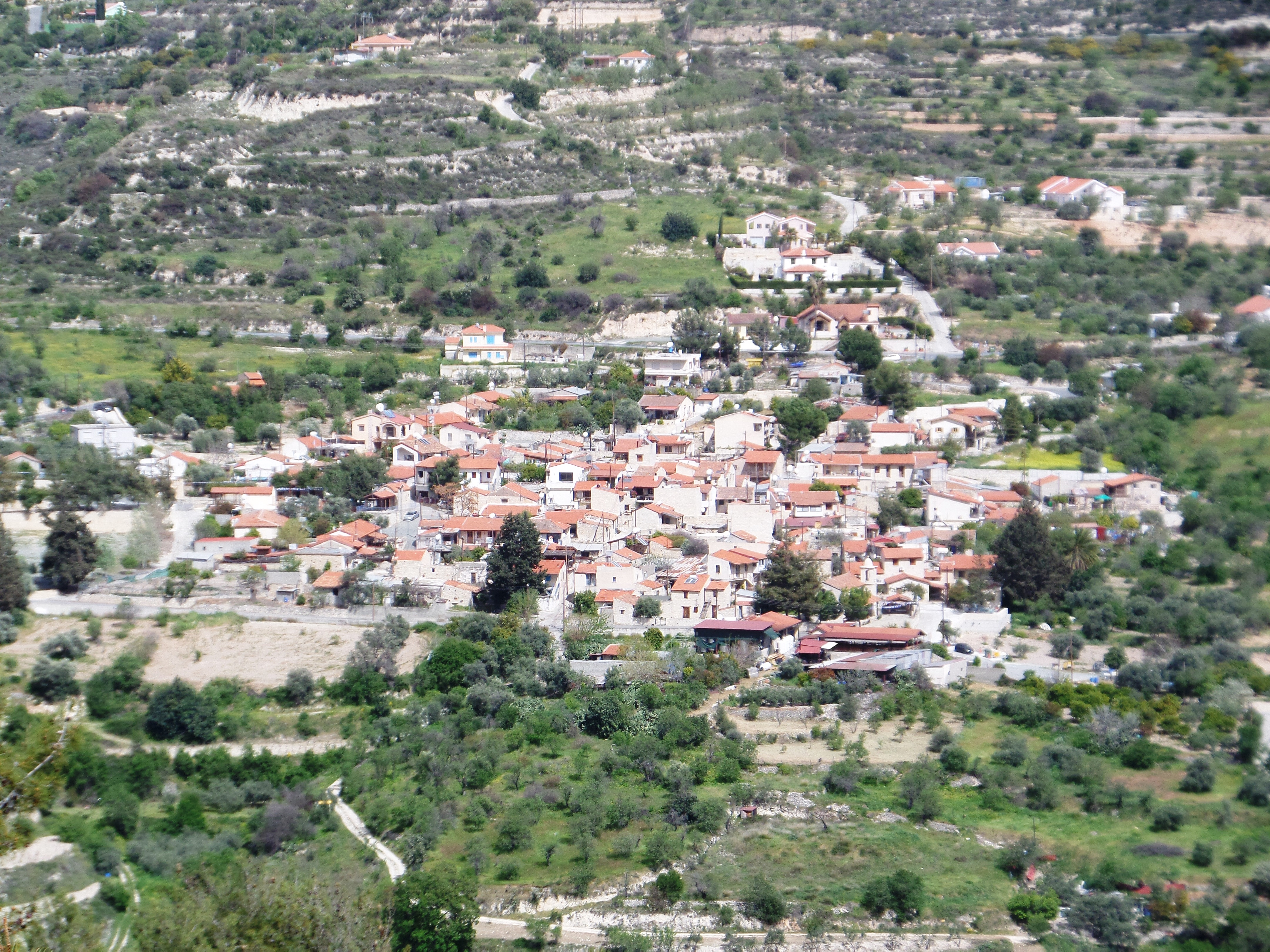 View of Monagri.